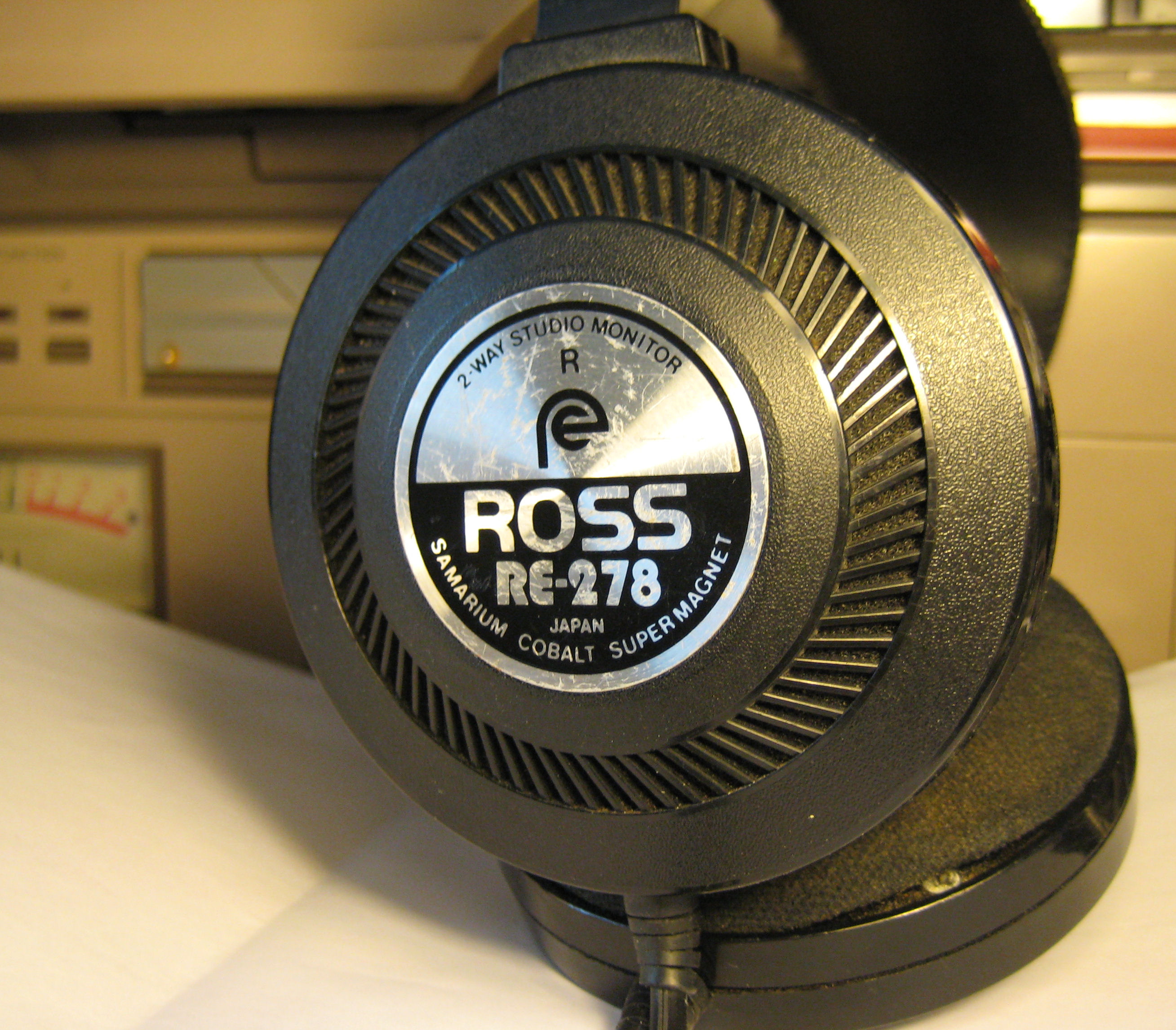 1980's vintage headphones utilising Samarium Cobalt magnets